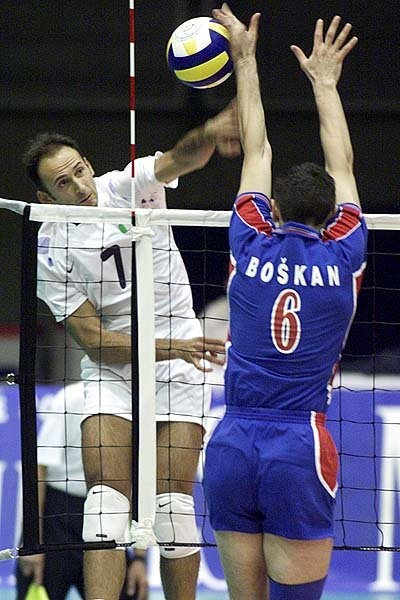 Italian volleyball player Andrea Sartoretti hit